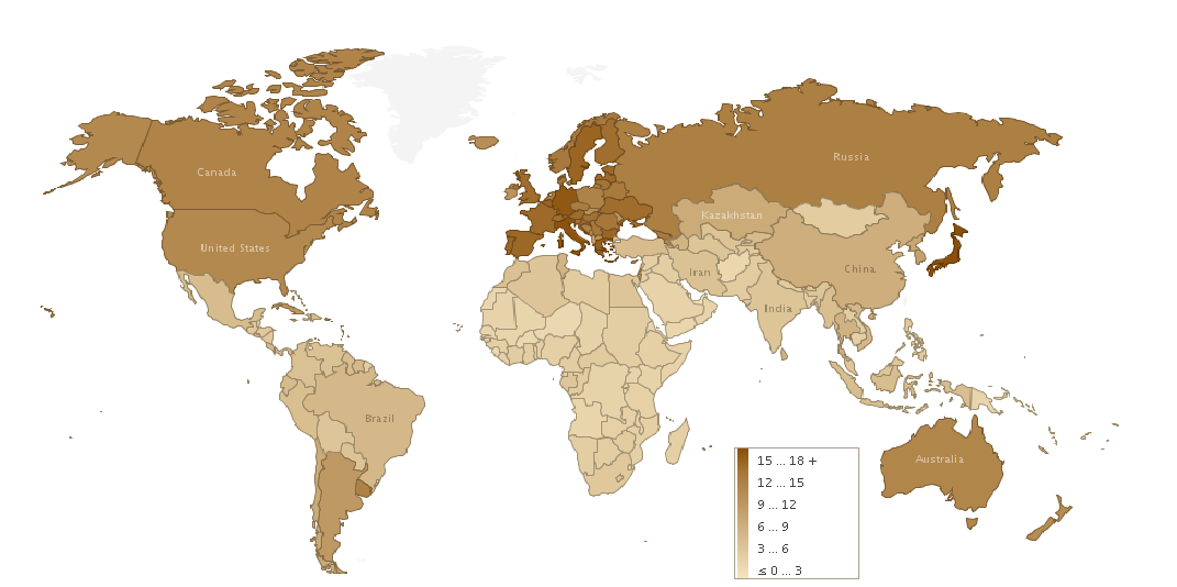 This is a map of the world reflecting the percentage of each country's population over the age 65 in 2005. Data come from the UN World Population Prospect 2008 edition.